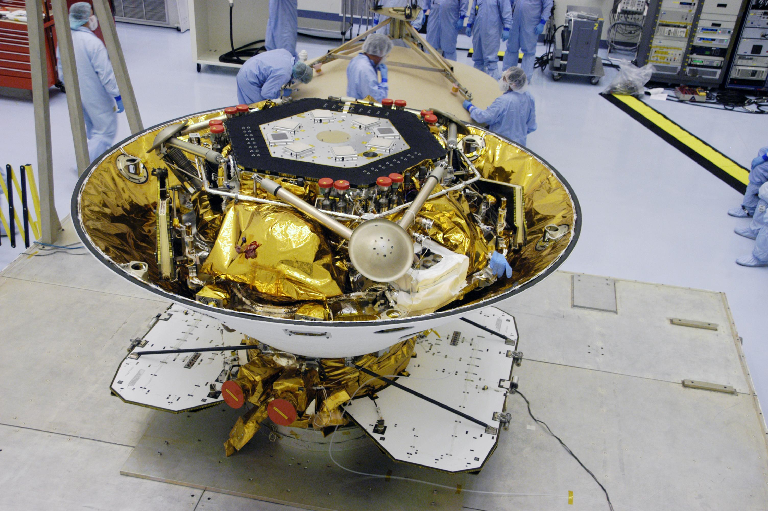 In the Payload Hazardous Servicing Facility, the Phoenix Mars Lander (foreground) can be seen inside the backshell. In the background, workers are helping place the heat shield, just removed from the Phoenix, onto a platform.